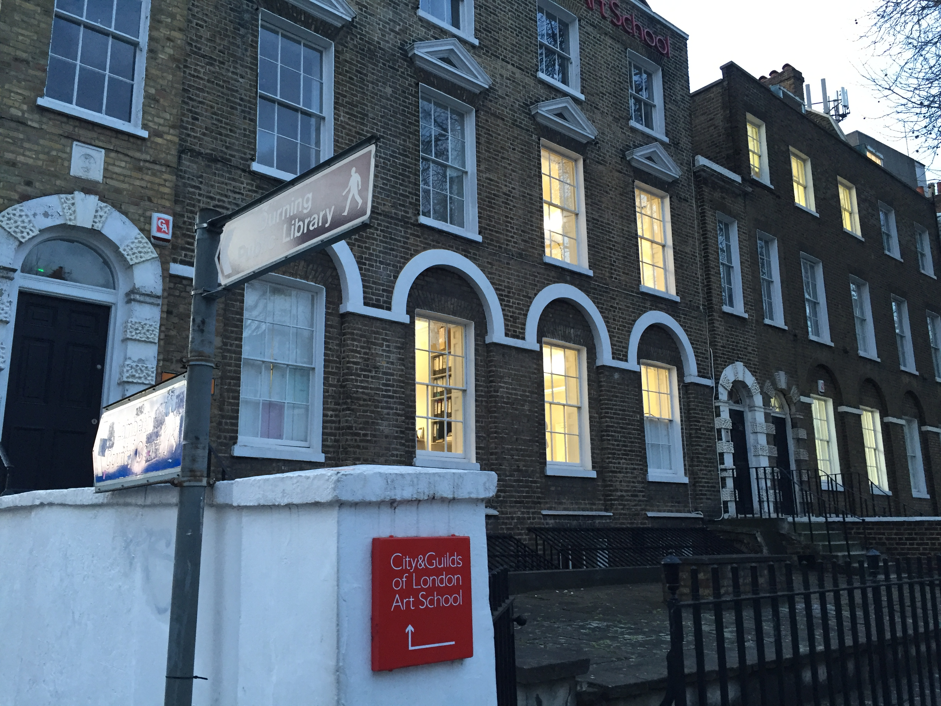 Exterior of the art school at twilight